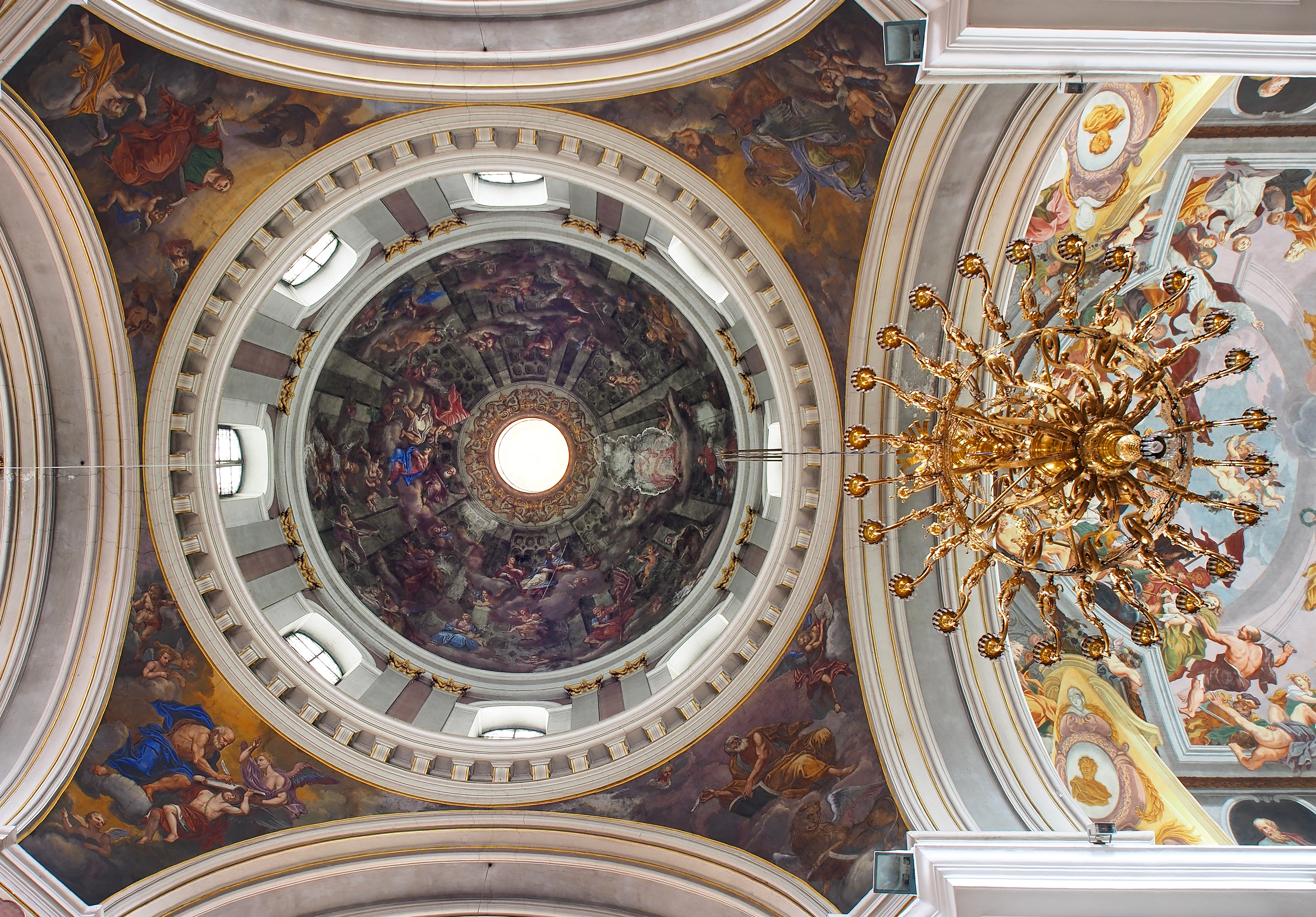 Cupola of Cathedral in Ljubljana, Slovenia. Frescoes are work of Italian master Giulio Quaglio in 1703–1706 and later 1721–1723. This photograph was taken with a Olympus E-P5.